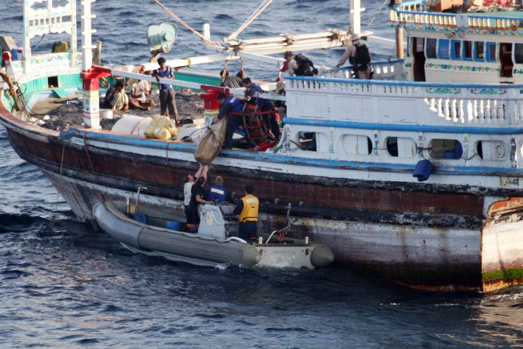 GULF OF OMAN (Feb. 3, 2011) A rescue and assistance team from the guided-missile cruiser USS Cape St. George (CG 71) assists the crew of an Iranian fishing vessel who's engine failed in the Gulf of Oman. Cape St. George provided fuel, food and water to the 16 crew members. Cape St. George is conducting maritime security operations in the U.S. 5th Fleet area of responsibility. (U.S. Navy photo by Yeoman 1st Class Kenneth D. Tate/Released)